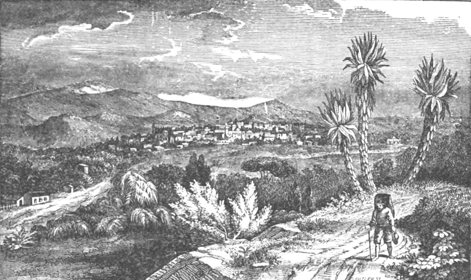 Image from book, "Mexico the way it was and is (1847)Xalapa or Jalapa, officially Xalapa de Enríquez is the capital city of the Mexican state of Veracruz and the name of the surrounding municipality.